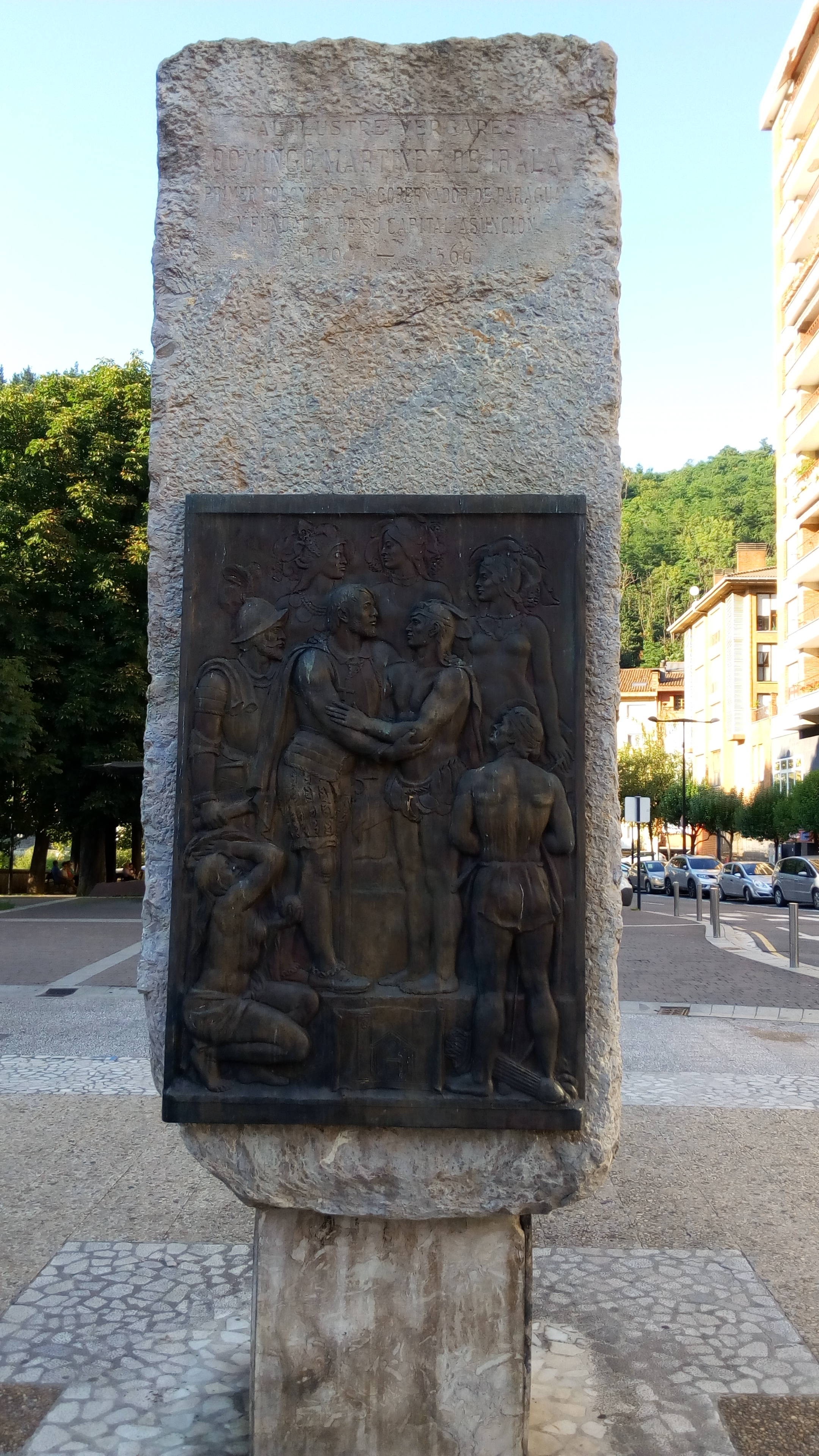 Monument in the memory of Domingo Martínez de Irala located in his birth place Bergara.